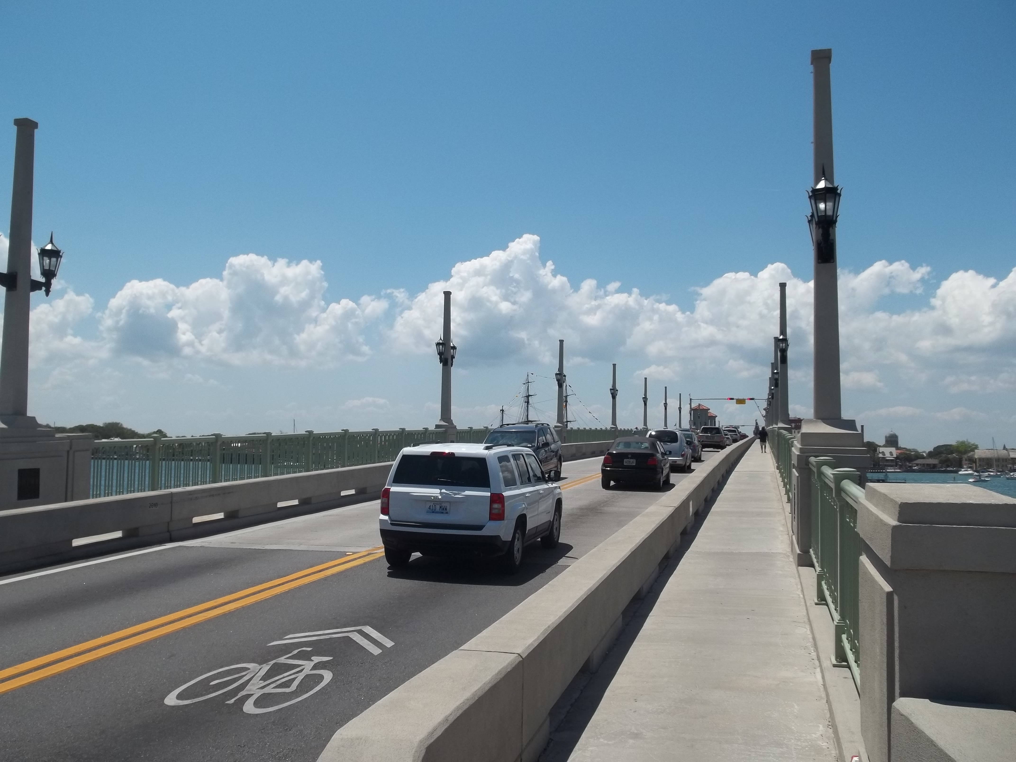 St. Augustine, Florida: Bridge of Lions